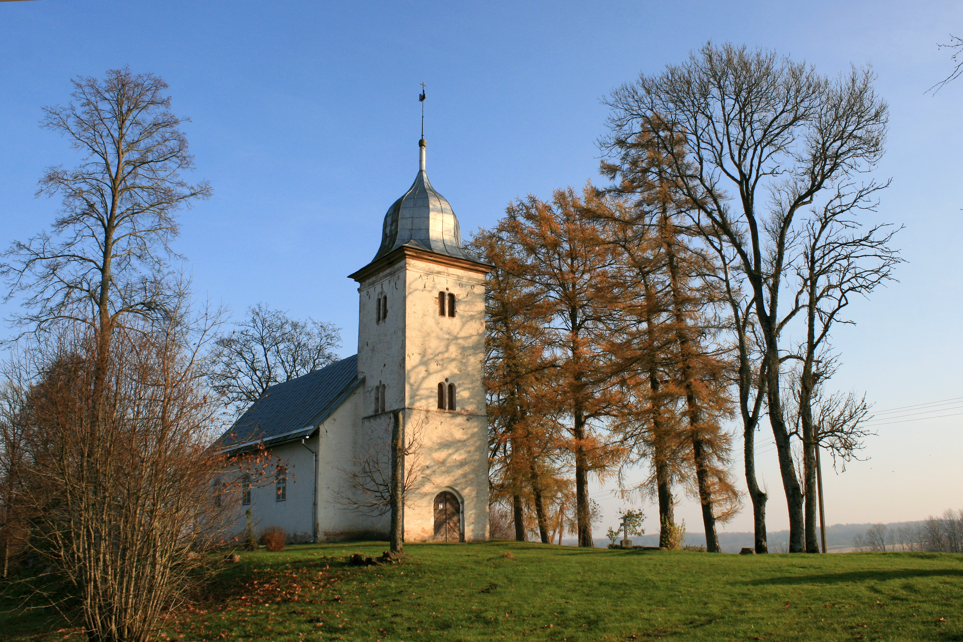 Church of Saint Lawrence in Vecpils. Built in 1644 and reconstructed in 1700.